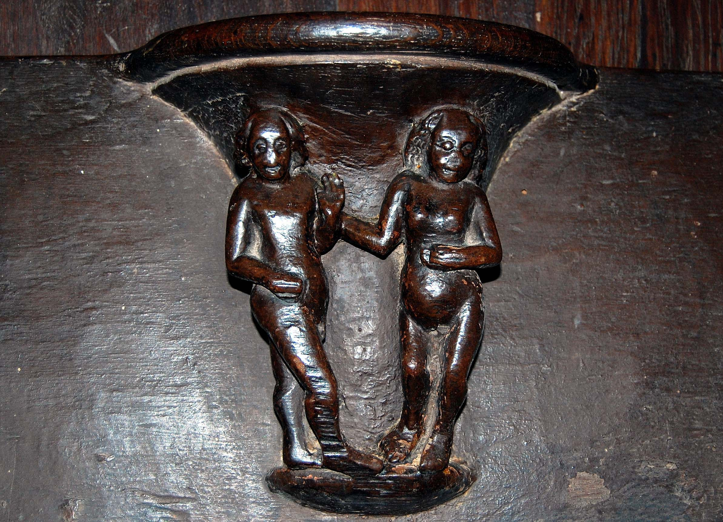 Unique misericord from abbaye Saint-Pierre of Vertheuil (33/France) Author : Chris Chiama - L'Atelier Graphique 06 18 04 24 90